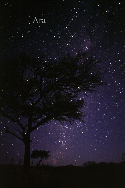 Photo of the constellation Ara, the Altar